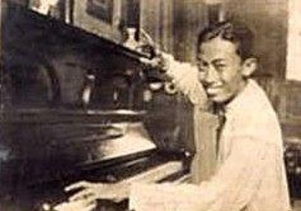 Indonesian composer Ismail Marzuki